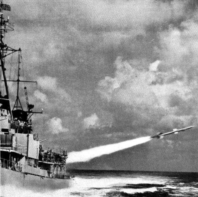 The U.S. Navy guided missile destroyer USS Gyatt (DDG-1) launching an SAM-N-7 Terrier missile, cicra in 1957.